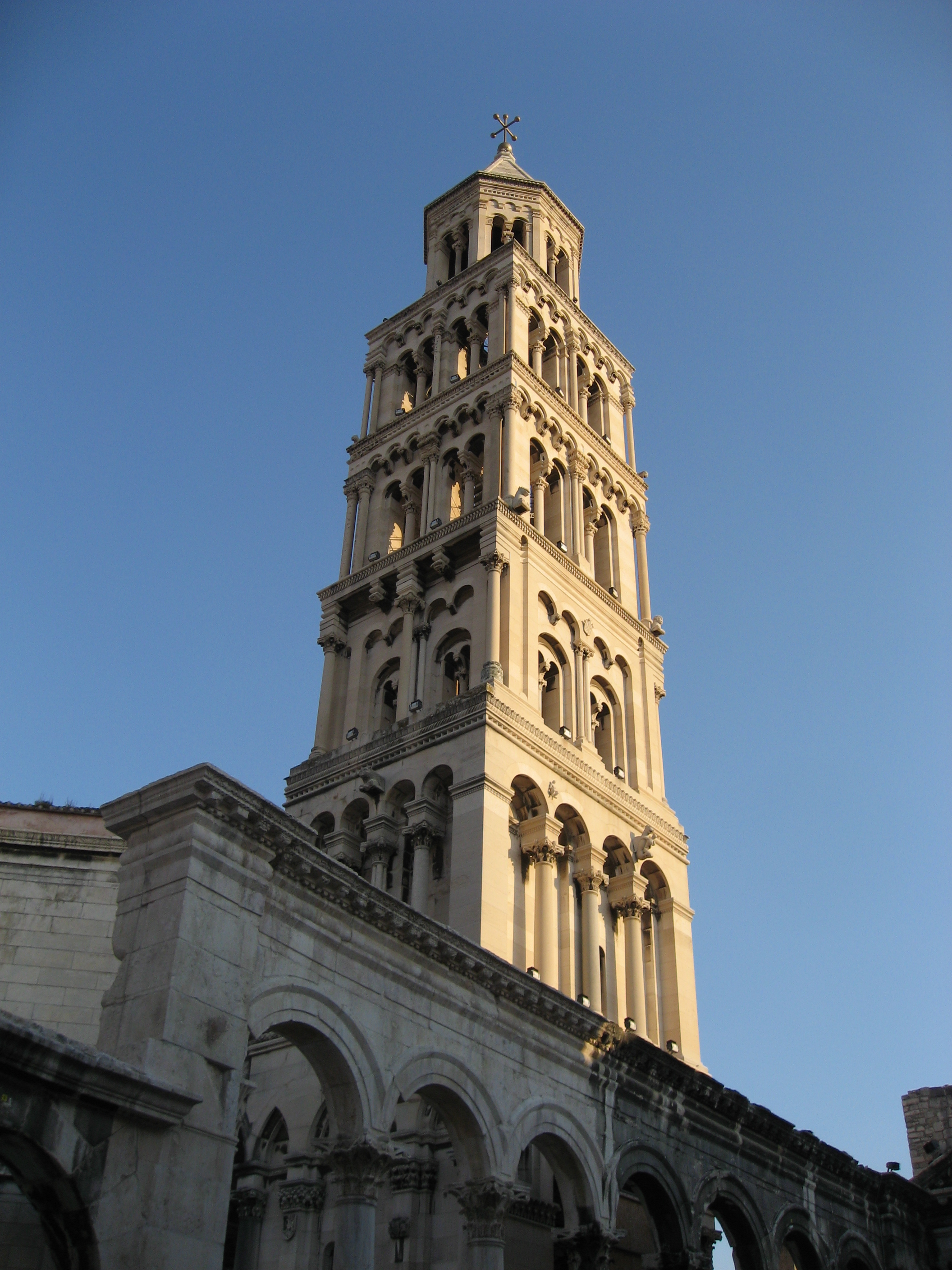 Bell Tower of the Cathedral in Split, Croatia.